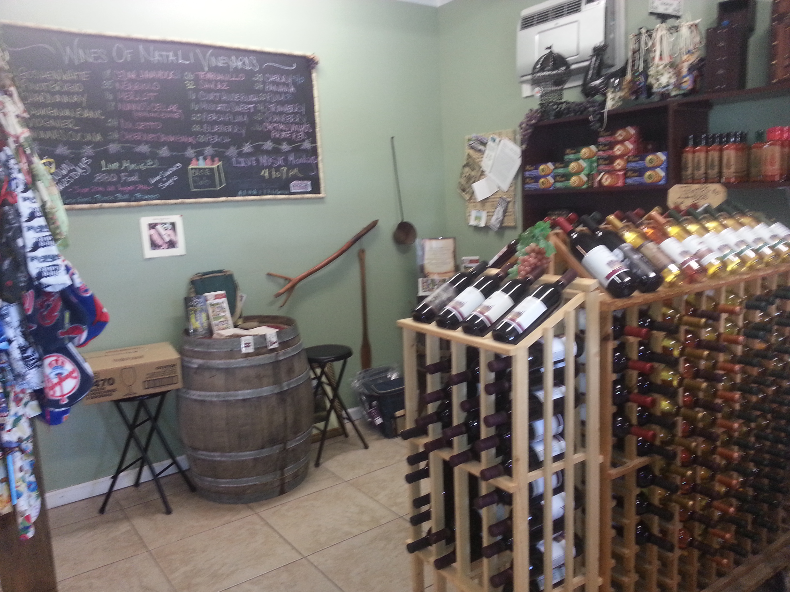 A picture of the tasting room of Natali Vineyards in Goshen, NJ. Natali Vineyards sells over 25 different types of wine, and is the only winery in the world to produce wine from beach plums.